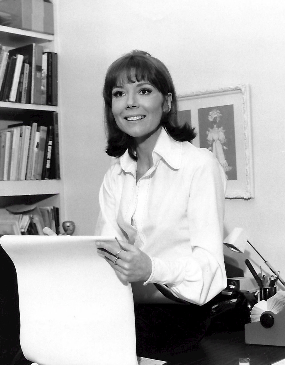 Photo of Diana Rigg from her short-lived NBC Television show, Diana. The item has no copyright markings on it as can be seen in the links above.